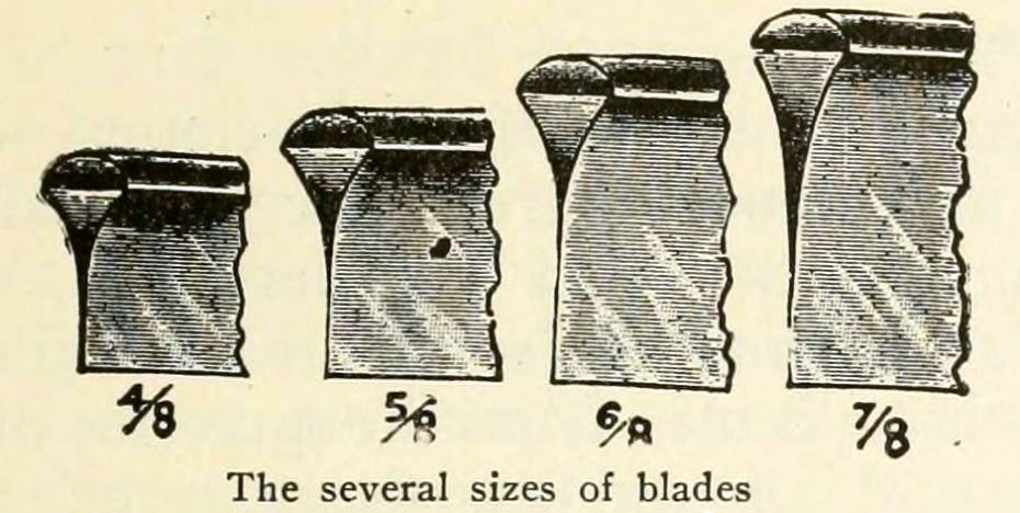 The several sizes of blades